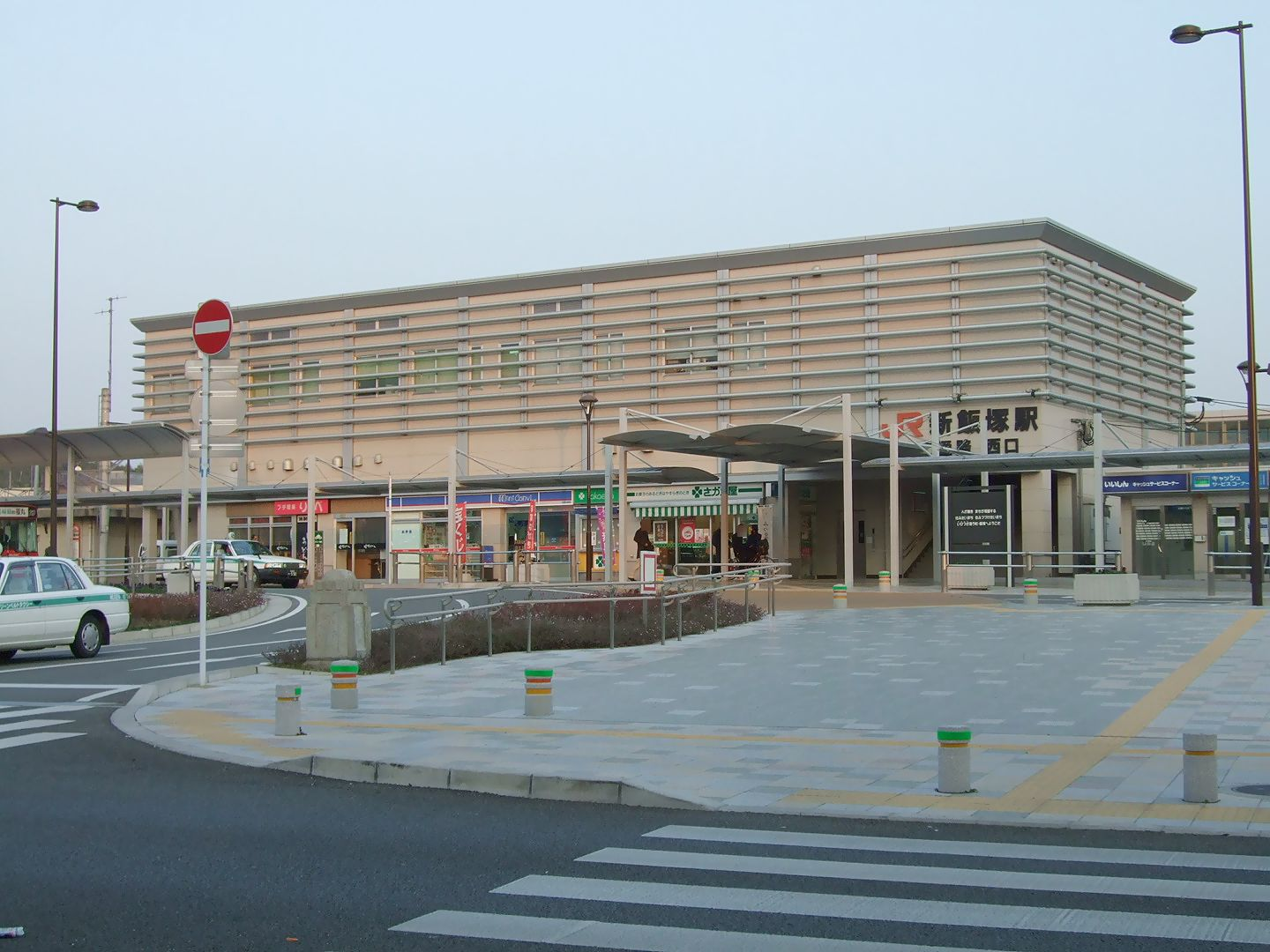 Kyushu Railway Company Shin-Iizuka Station West Entrance